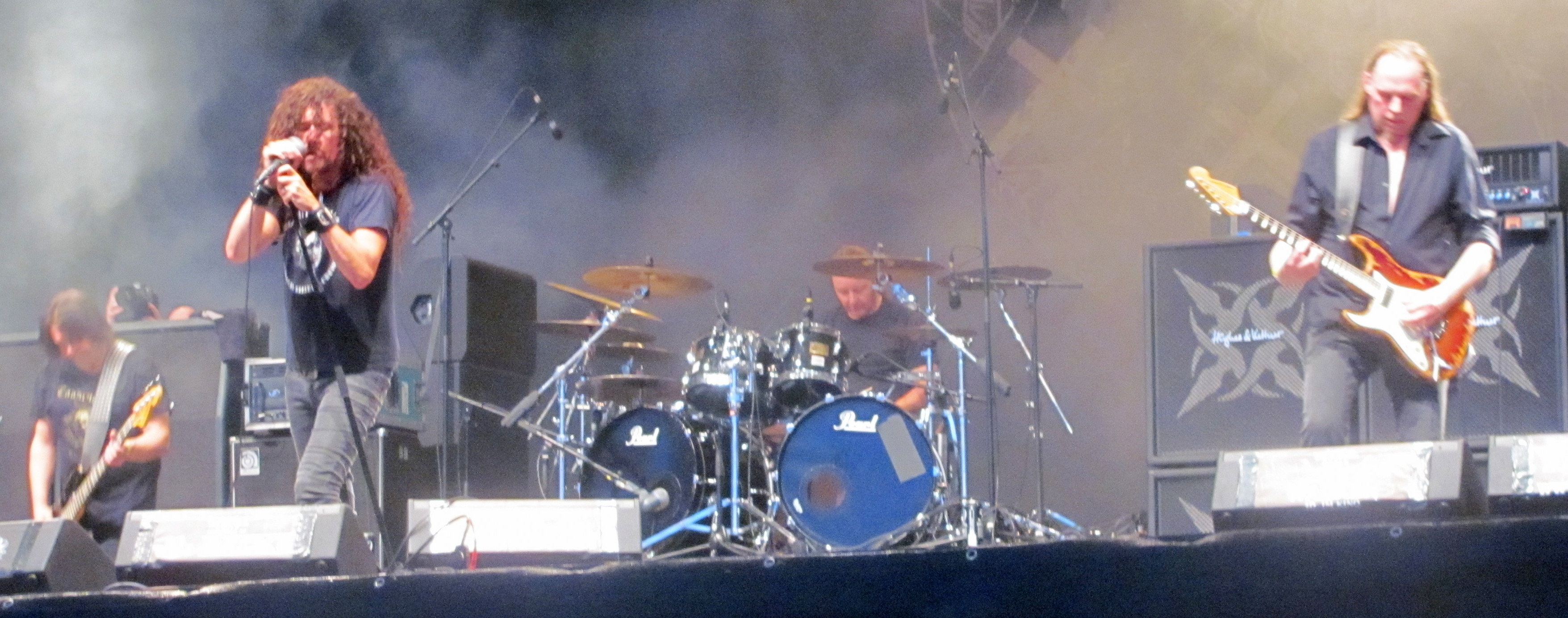 Candlemass at WOA 2013